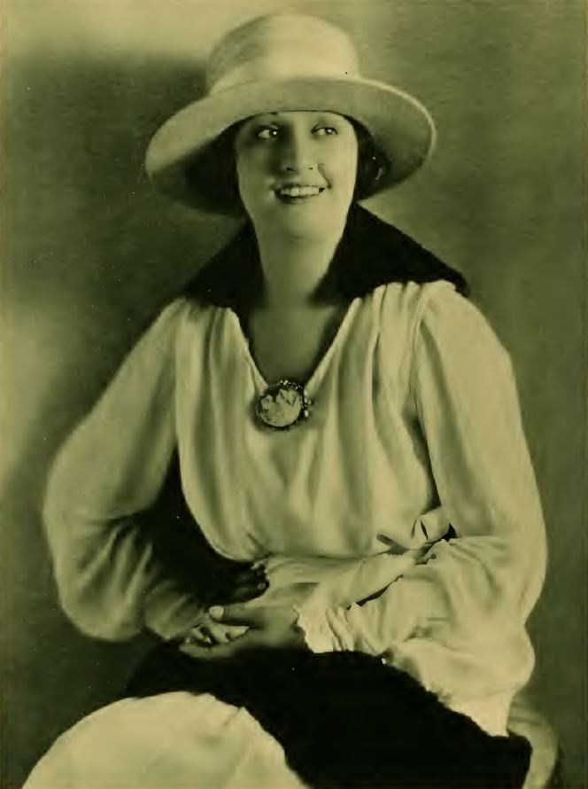 Rosemary Theby on page 22 of the February 1921 Photoplay magazine.